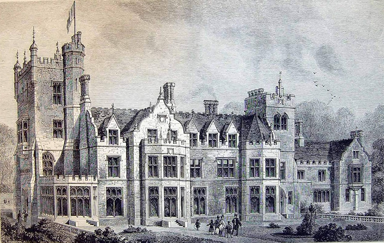 Hope End Mansion, Ledbury, Herefordshire, England. Engraving from The Builder, 8 November 1873, caption "Mansion at Hope End near Malvern — Messrs. Habershon, Pite, & Fawckner, Architects."